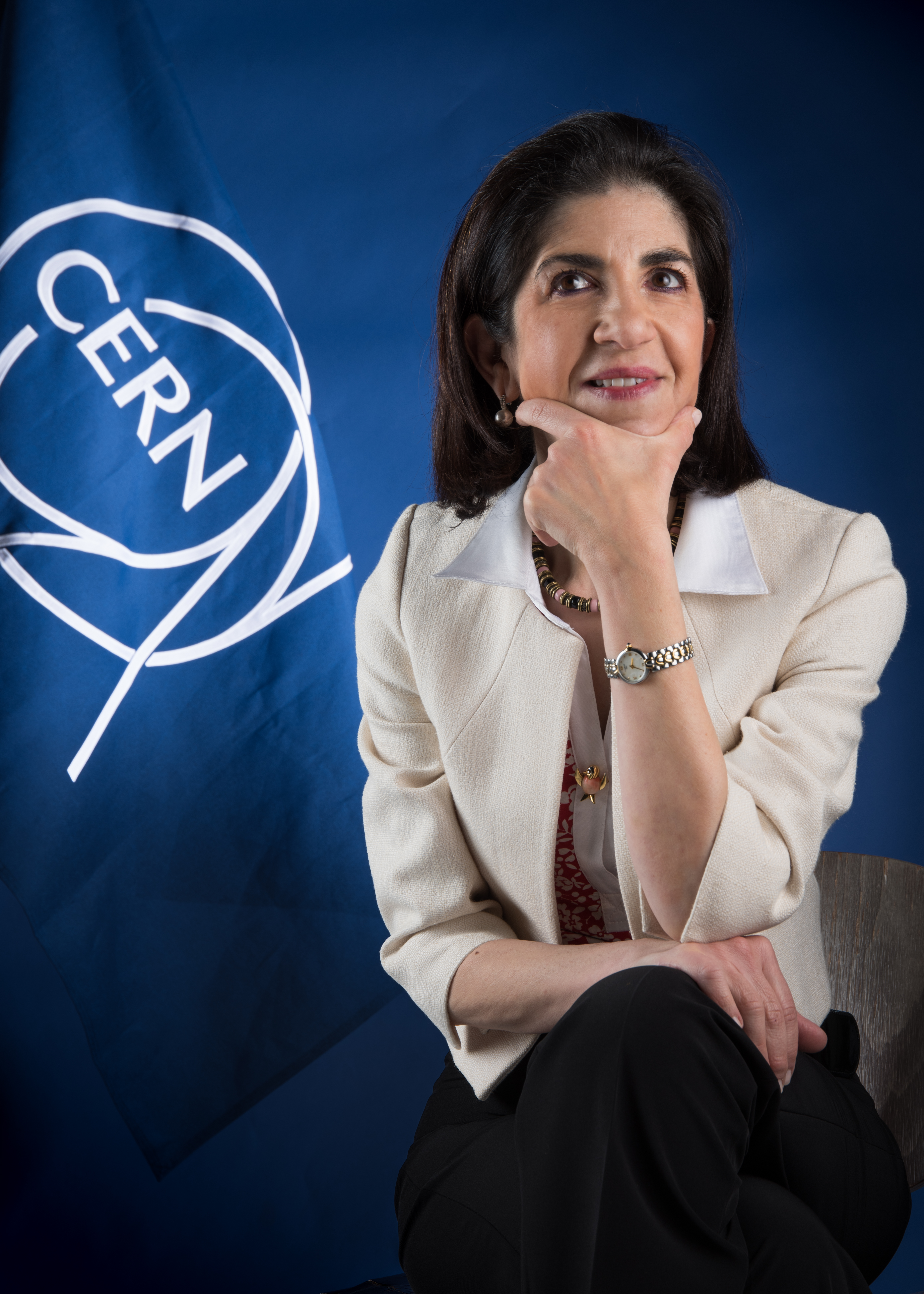 This portrait of Dr Fabiola Gianotti was taken in December 2015 before she began her mandate as Director-General of CERN (on 1 January 2016).